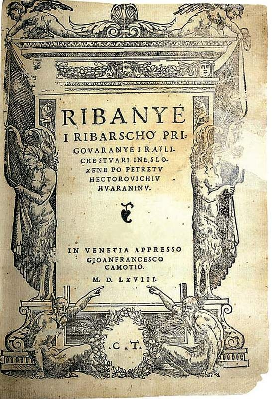 Petar Hektorović: Ribanje i ribarsko prigovaranje (Fishing and Fishermen's Talk), title page, 1568, Venice.